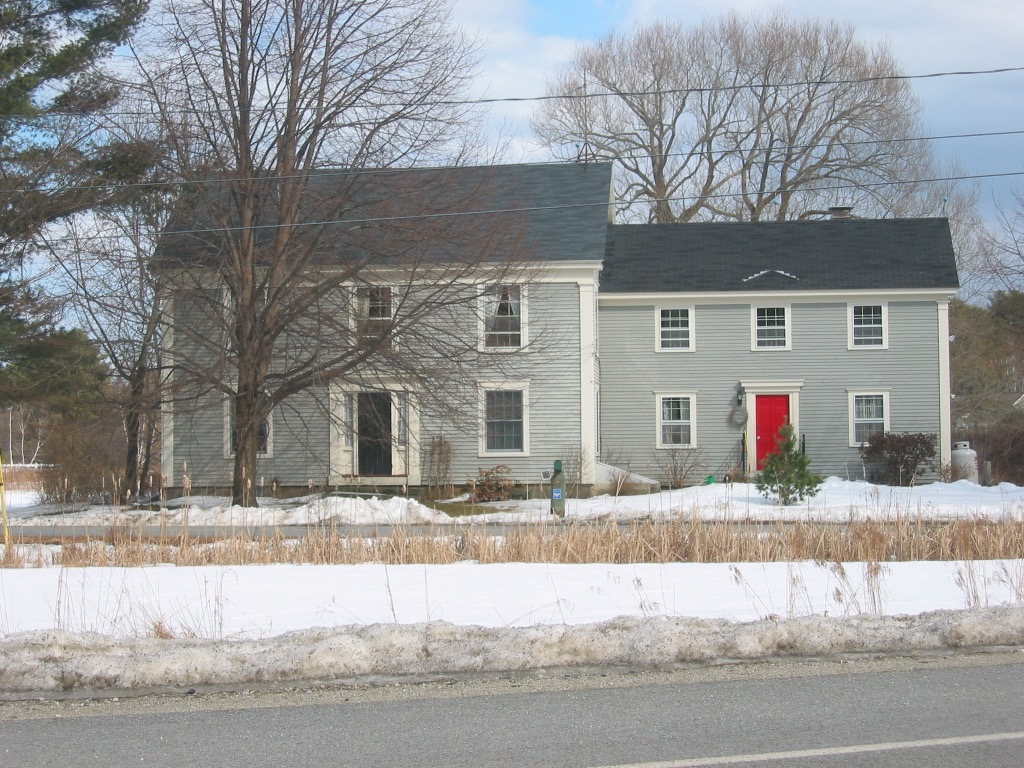 Charles Bucknam House, Yarmouth, Maine.